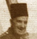 Kaimakam (Colonel) Victor Hubert Tait Bey